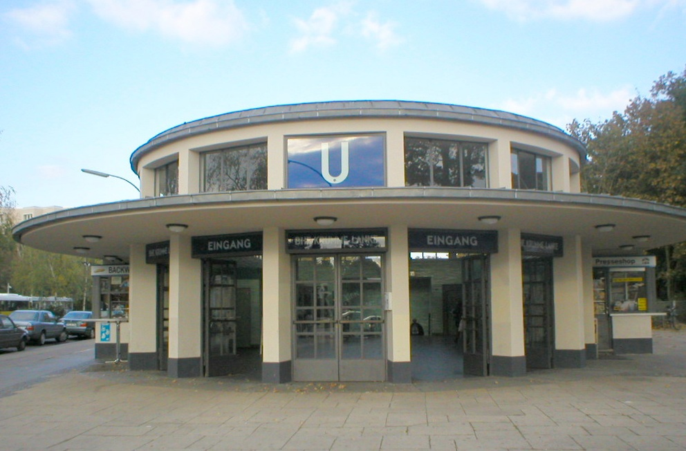 Berlin's U-Bahn station Krumme Lanke (line U3)